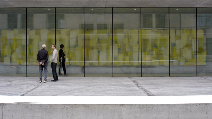 This photo is made in front of the secondary modern school Buchental / St. Gallen (CH) and shows an untitled artwork of Markus Baldegger.